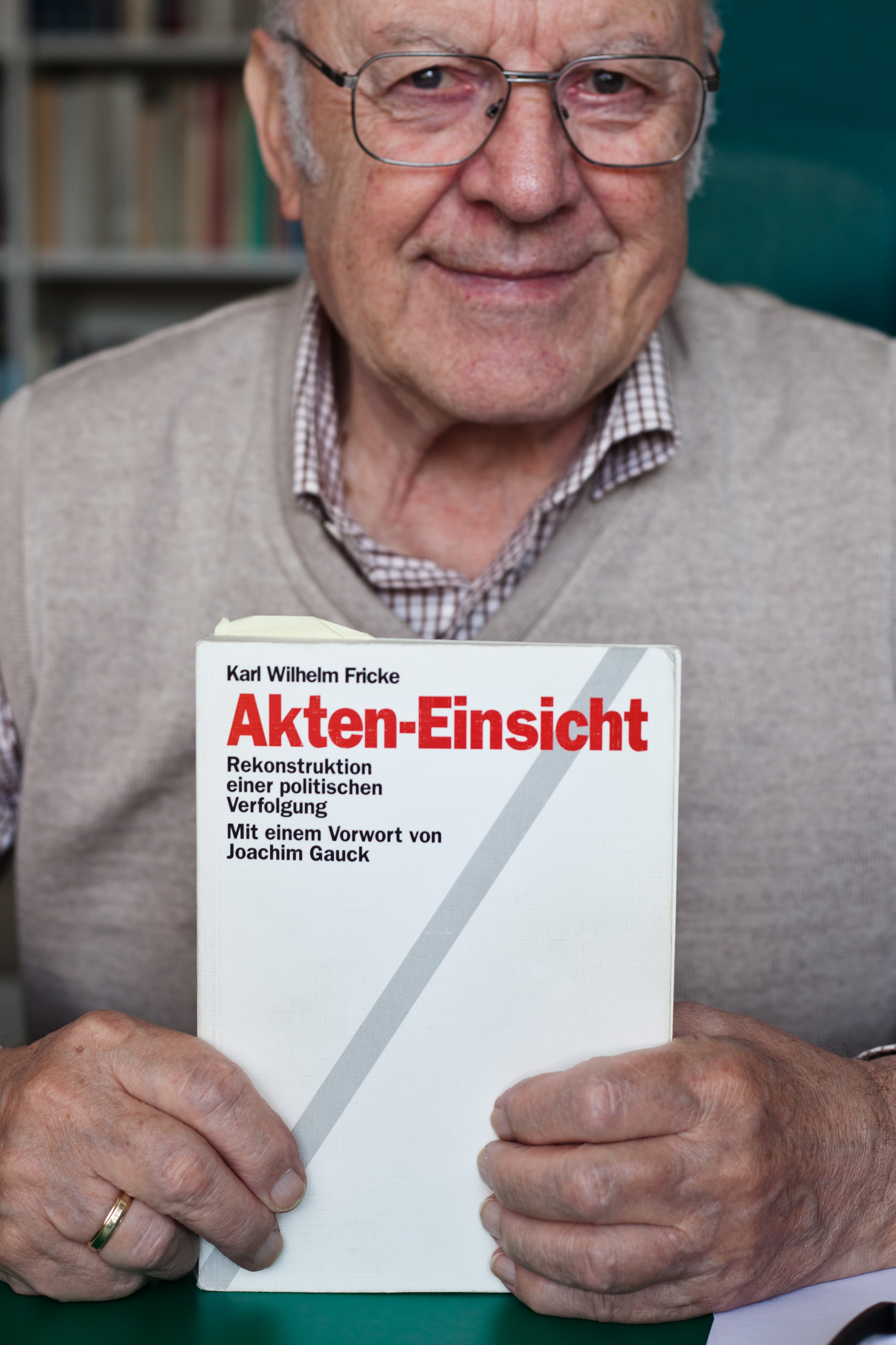 The german journalist Karl Wilhelm Fricke, photographed in his home in Cologne, Germany, 2011, with his major publication "Akten-Einsicht" (Document insight) in his hands.